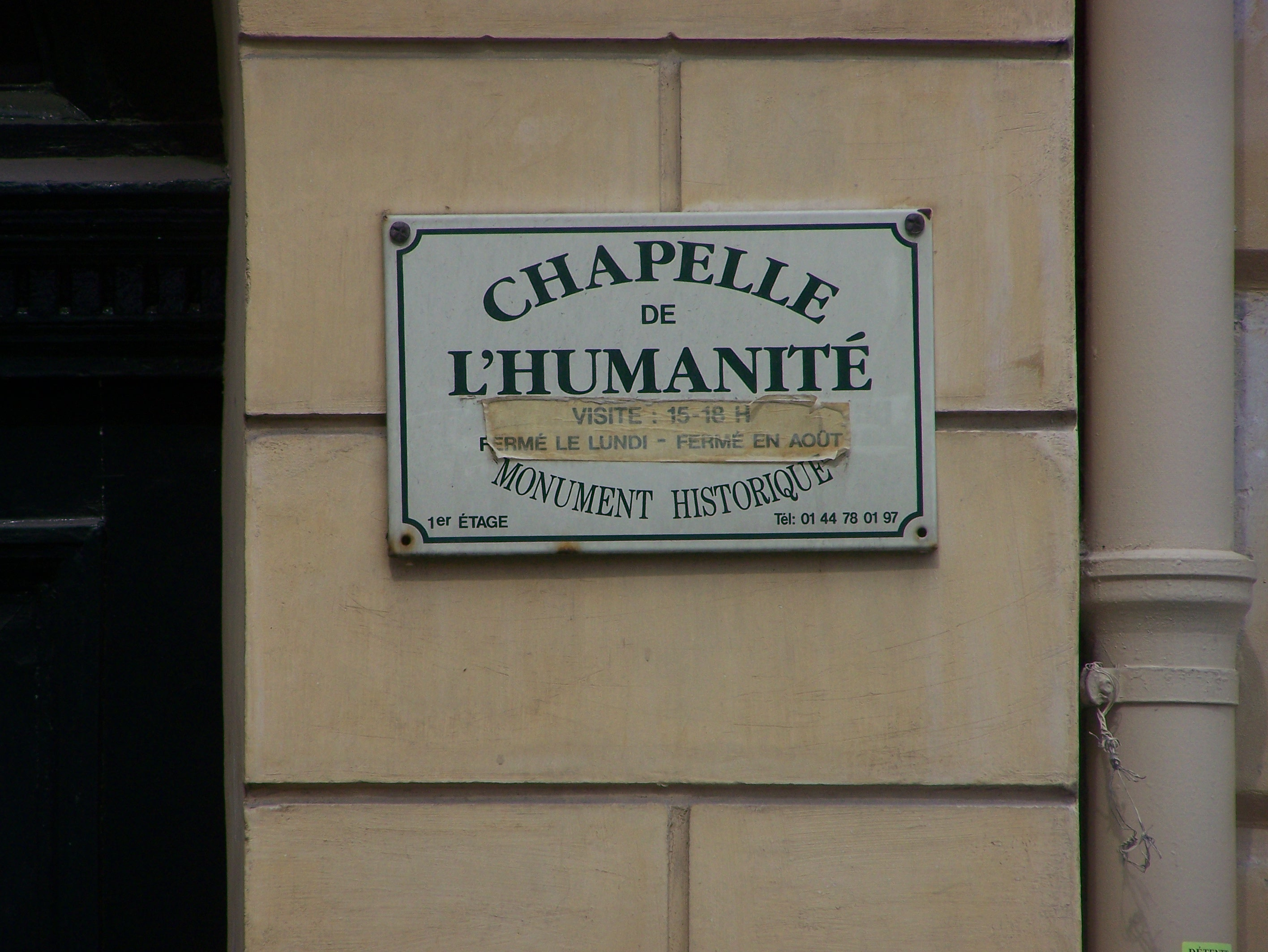 Paris, rue Payenne. Chapelle de l'humanité. Sign